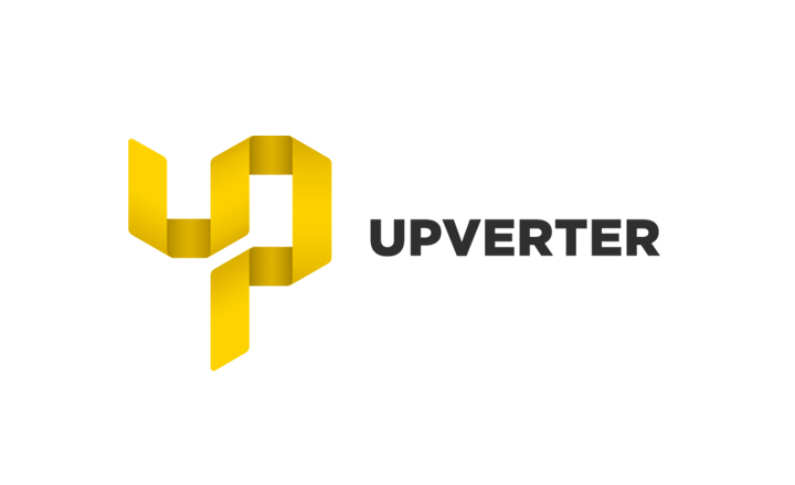 The 2018 updated Upverter Logo published by Altium and used with permission.